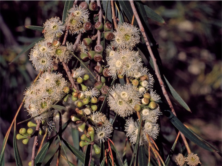 Flower buds, flowers and fruit of Eucalyptus pulchella at Wittunga, South Australia